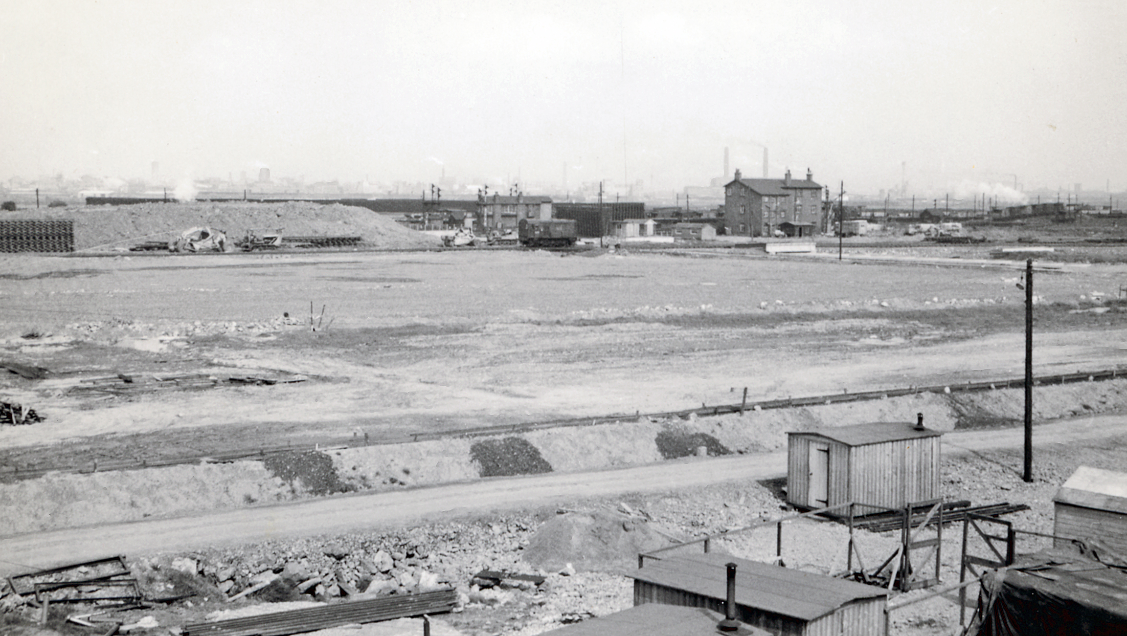 Tees Yard, Thornaby: under construction 1961. View northward from the A176 Stockton Road: in the distance is the ex-NER (Stockton & Darlington) main line from Darlington (to left) to Thornaby, Middlesbrough and Saltburn (to right). Tees Yard was opened here in 1963, but lasted as such only until 1980 - such has been the decline of heavy industry in the ensuing 30+ years.